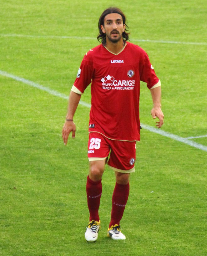 Piermario Morosini playing for LIVORNO